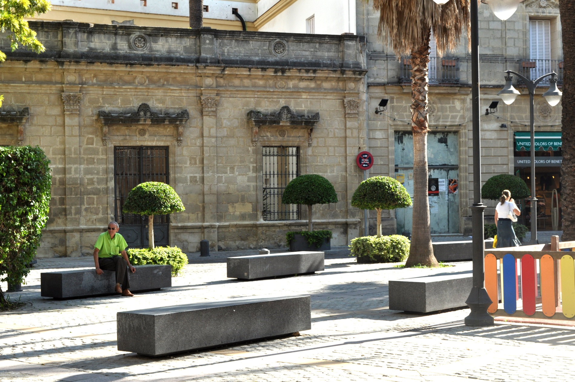 Progreso Square, Jerez